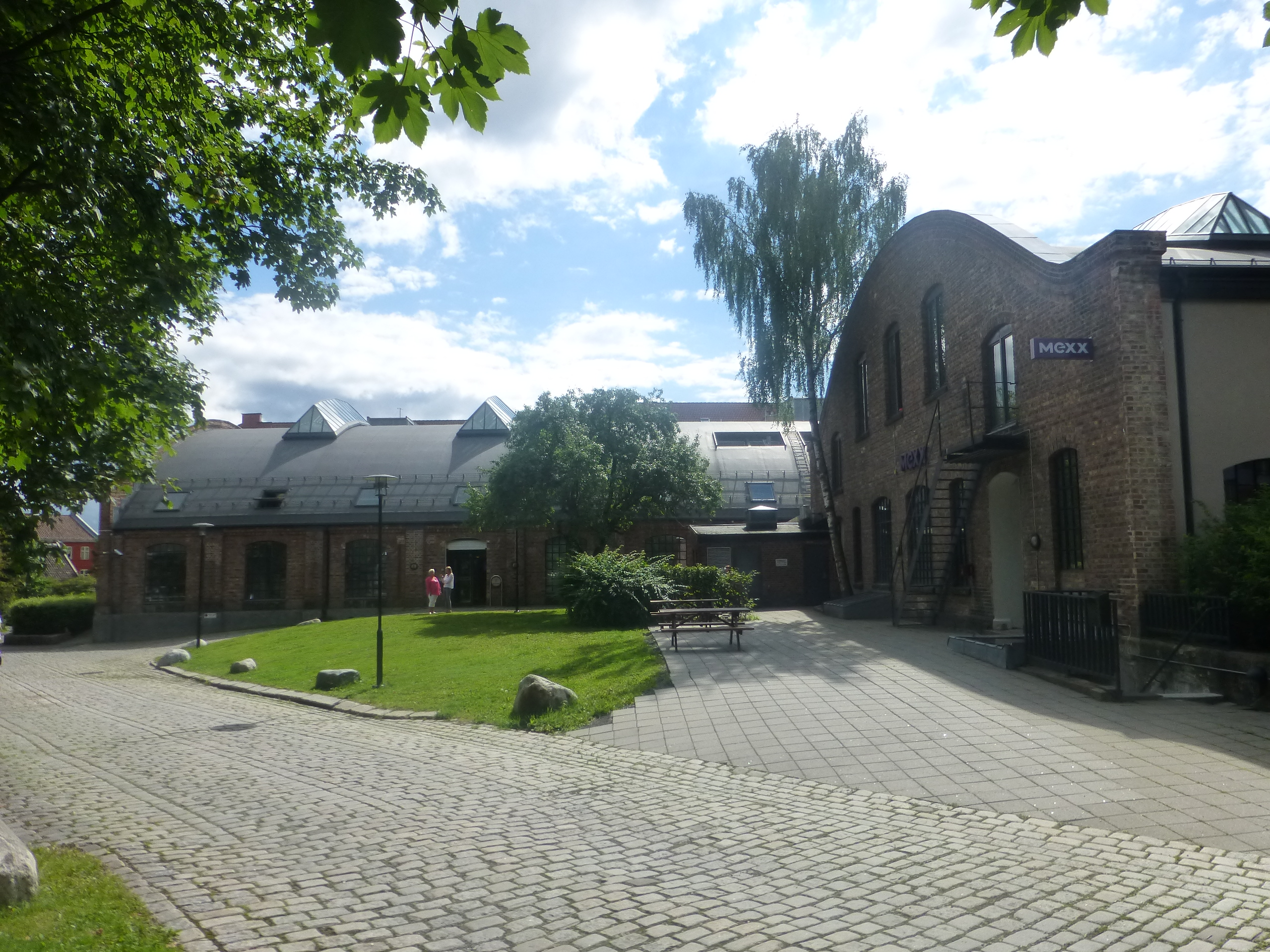 The old tram depot Sagene vognhaller in Oslo. The tram depot was closed in 1998.